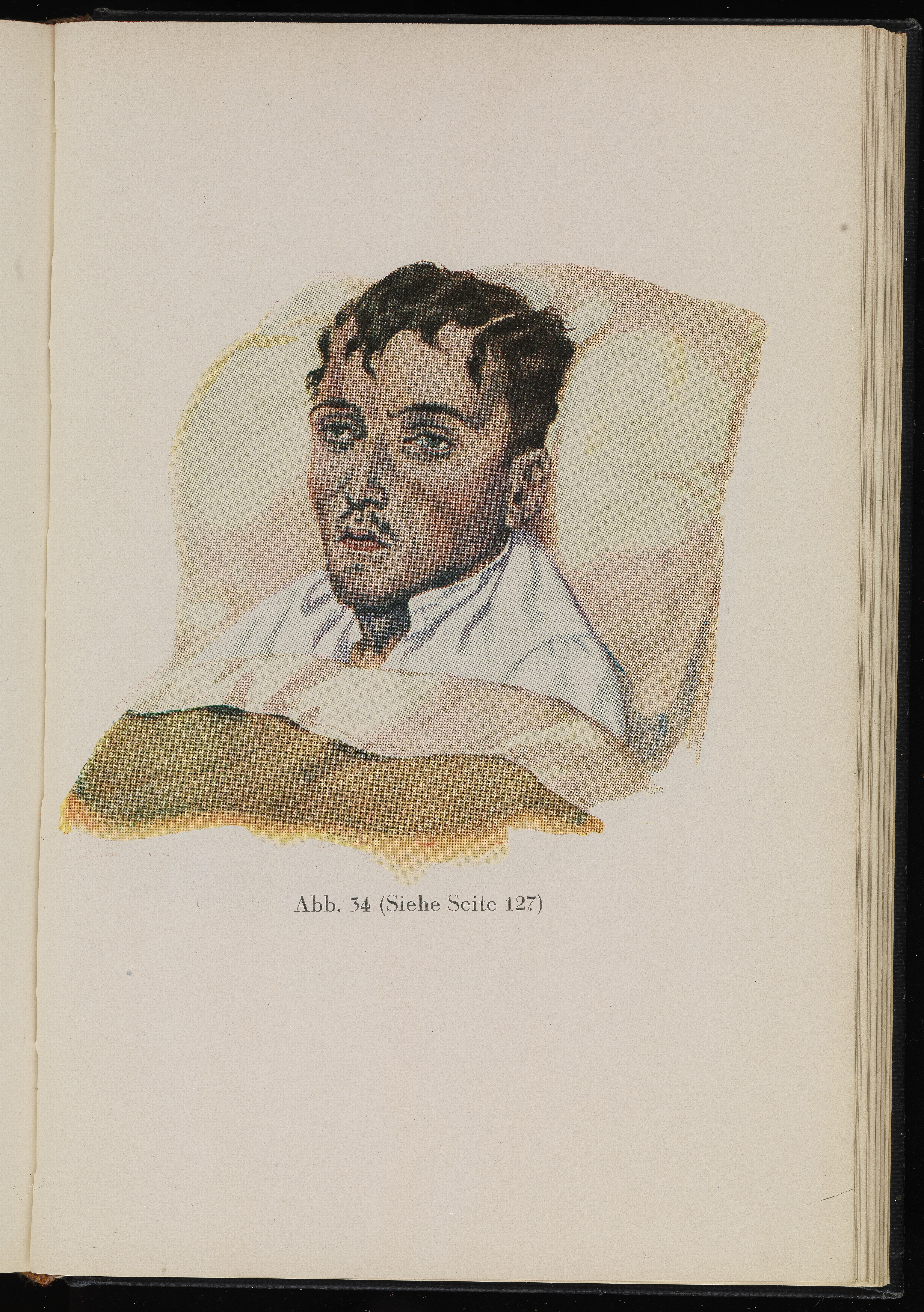 Abb 34, page 127 St. N. a 30 year old soldier suffering from dysentery. General Collections Keywords: Dysentery; Physiognomy